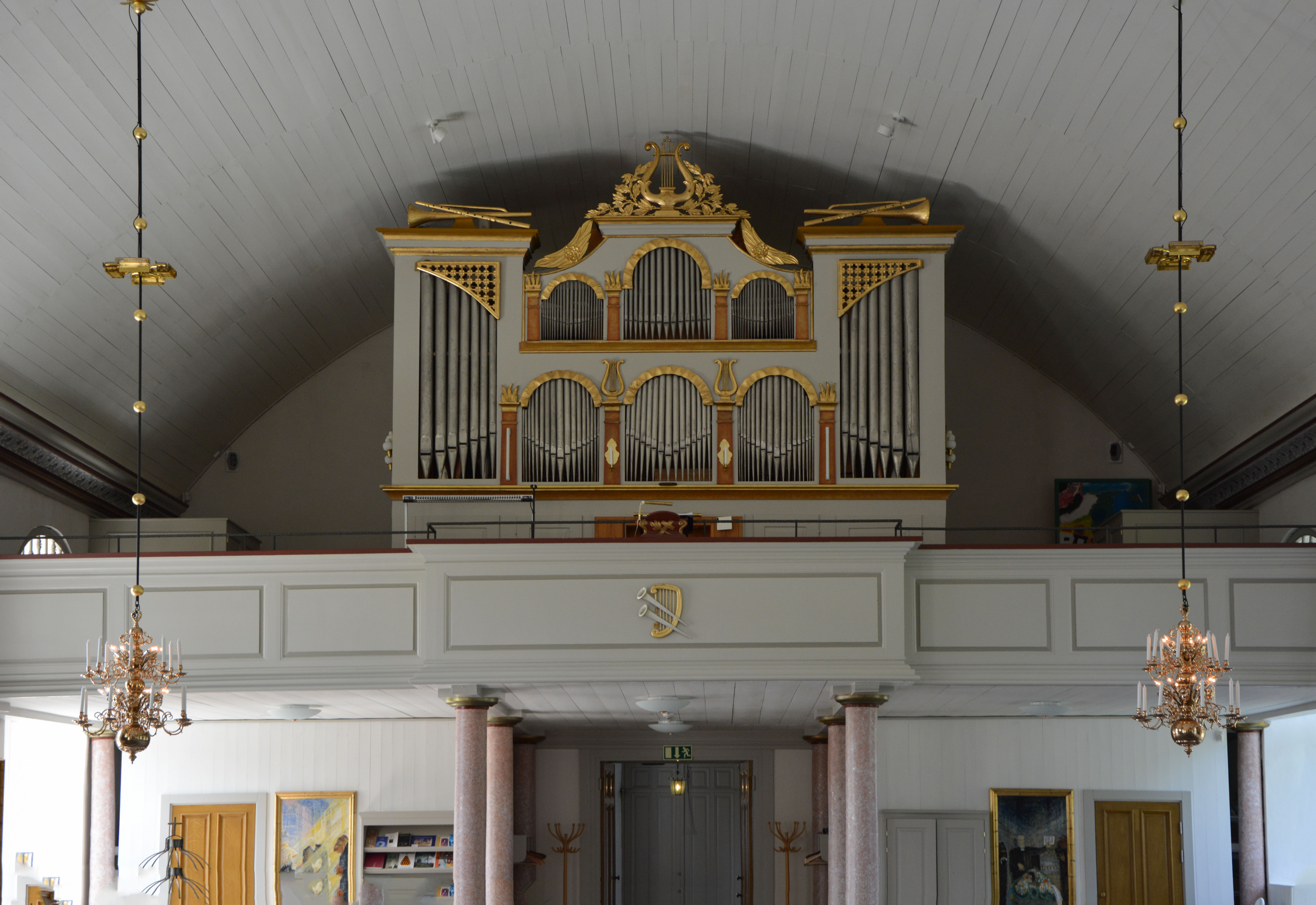 Långasjö Chuch. The organ